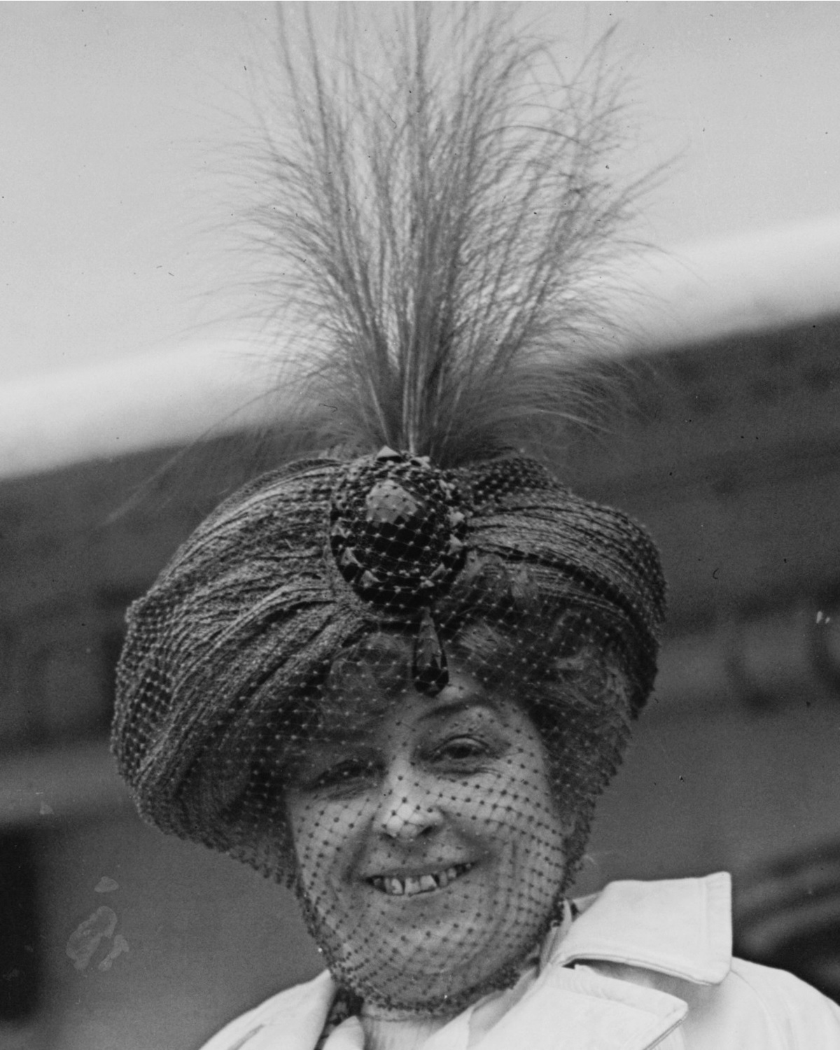 Amelia Bingham (1869-1927), American actress, wearing turban-style hat with feathers and veil in 1910.